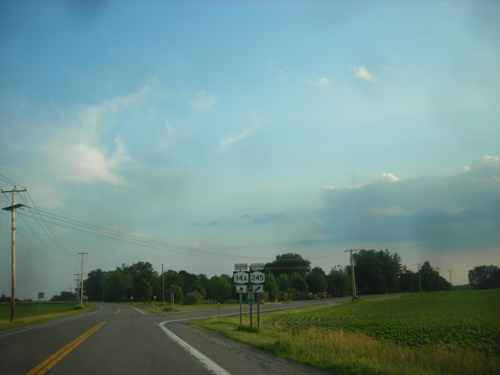 The southern terminus of the New York State Route 14A and New York State Route 245 overlap in Seneca. NY 14A continues south toward Watkins Glen while NY 245 forks off to begin its southwesterly progression toward Naples.